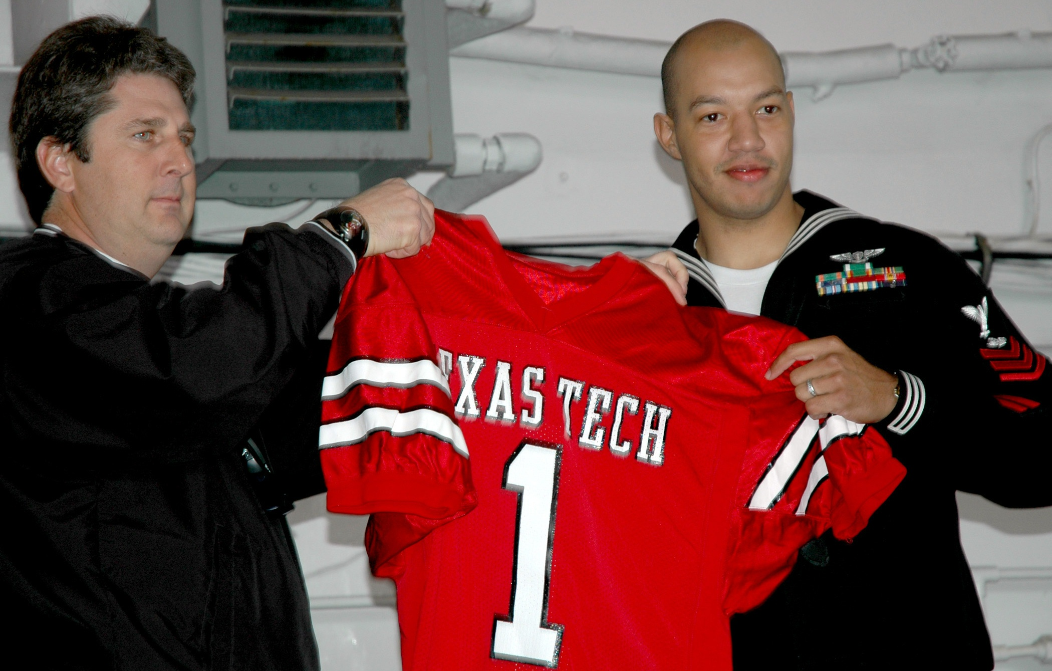 San Diego, Calif. (Dec. 27, 2004) - Texas Tech Head Coach Mike Leach presents Air Traffic Controller 1st Class Mitchel Deshotel a team jersey and making him an honorary team captain. Deshotel will join the team during the game at Qualcomm Stadium in San Diego, Calif. The amphibious assault ship USS Tarawa (LHA 1) hosted the 27th Pacific Life Holiday Bowl luncheon for players from the “Golden Bears” of University of California and the “Red Raiders” of Texas Tech University. The teams will play in the bowl game on December 30, 2004 at Qualcomm Stadium in San Diego, California. U.S. Navy photo by Photographer's Mate Airman Matthew Clayborne (RELEASED)